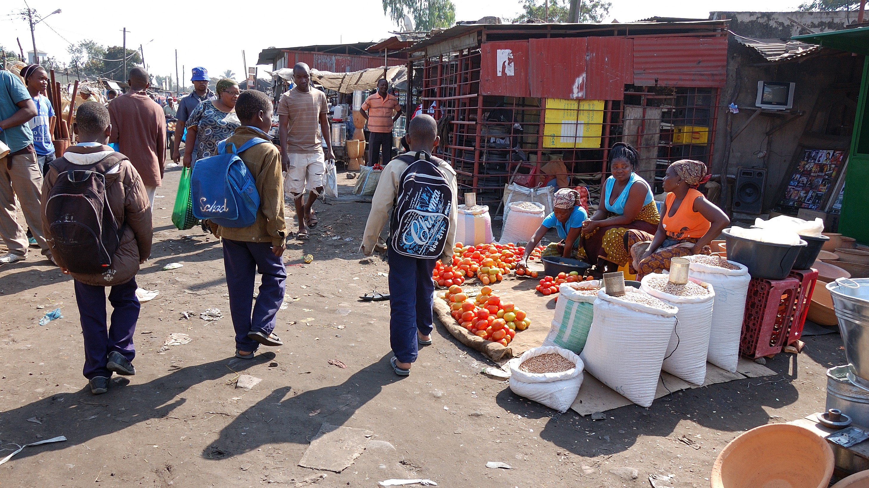 Xipamanine market in Maputo, Mozambique